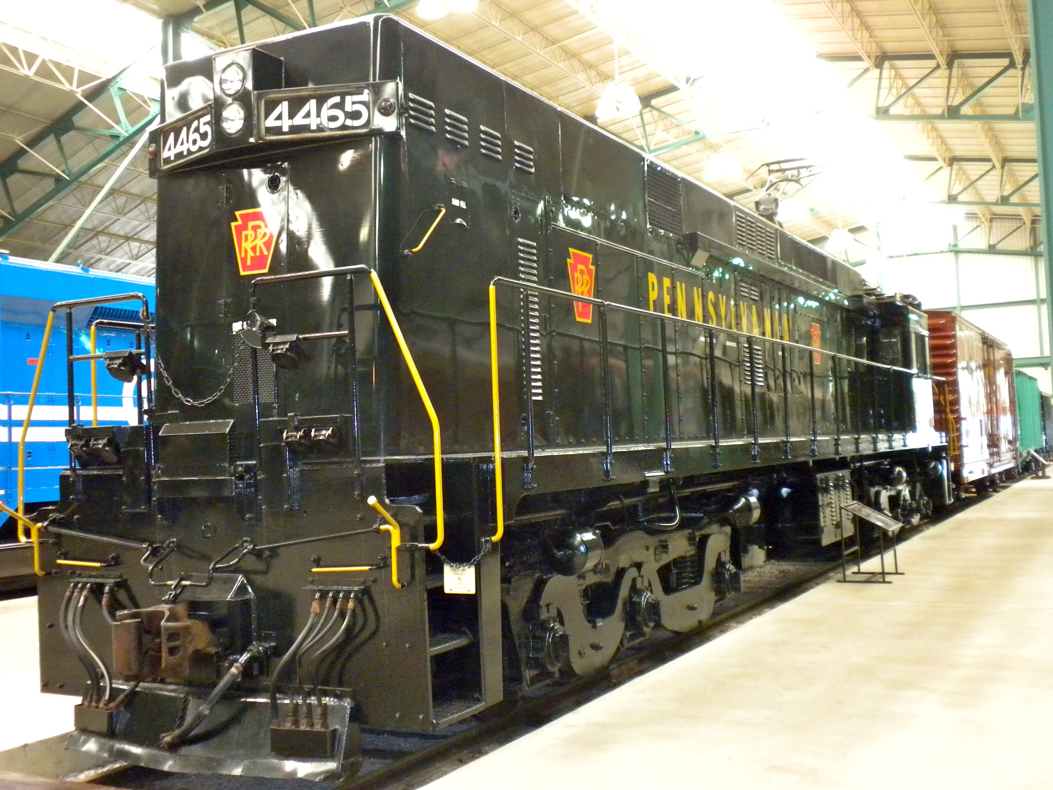 Pennsylvania Railroad Locomotive 4465, last electric locomotive built for the PRR. Built by PRR Erie shops and GE on April 1963 retired c. 1991 Wheels C-C class E-44, 66 of type built. Weight 384,260 lbs, length 69 ft. 6 inches, tractive effort 53,500 continuous/89,000 max. Pichup Overhead Catenary Wire and Pantograph, Voltage 11,000-v AC. Worked on PRR, sold to New Jersey Transit (not used!) and then went to Amtrak